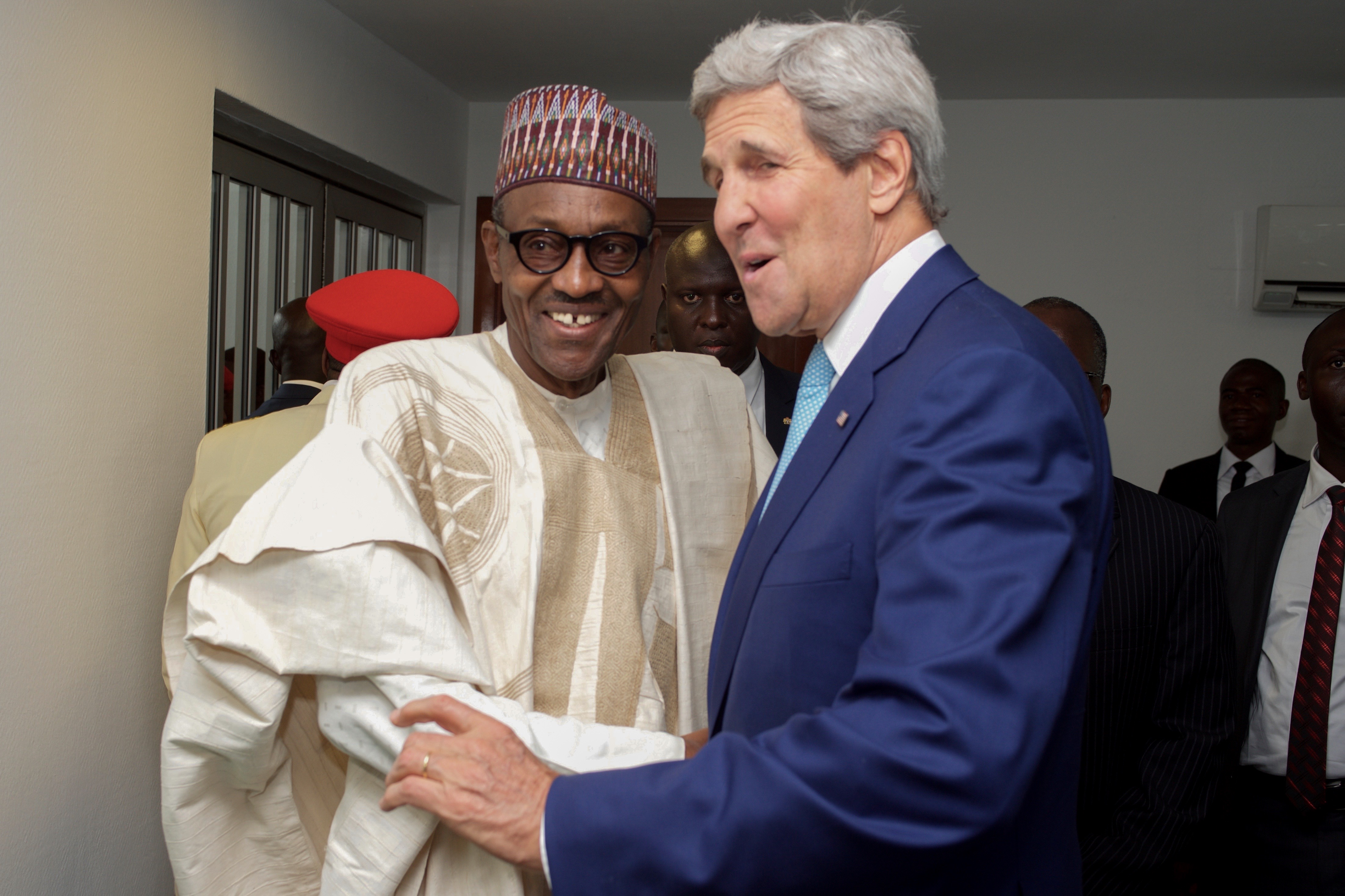 U.S. Secretary of State John Kerry shakes hands with newly sworn-in Nigerian President Muhammadu Buhari at Eagle Square in Abuja, Nigeria, before a bilateral meeting after Kerry led a delegation representing President Obama on May 29, 2015. [State Department photo/ Public Domain]